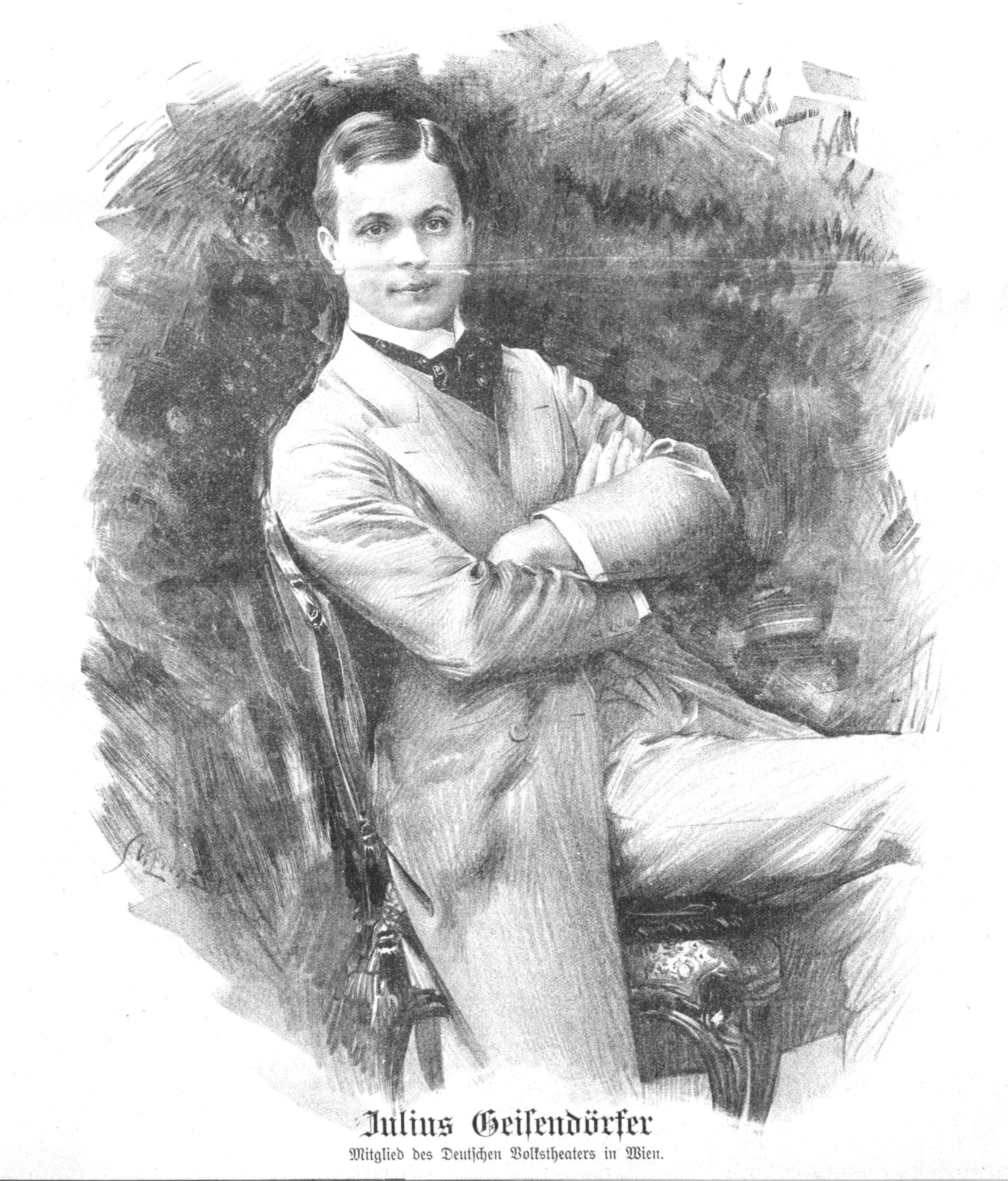 Portrait of Julius Geisendörfer (1878-1953), German actor.